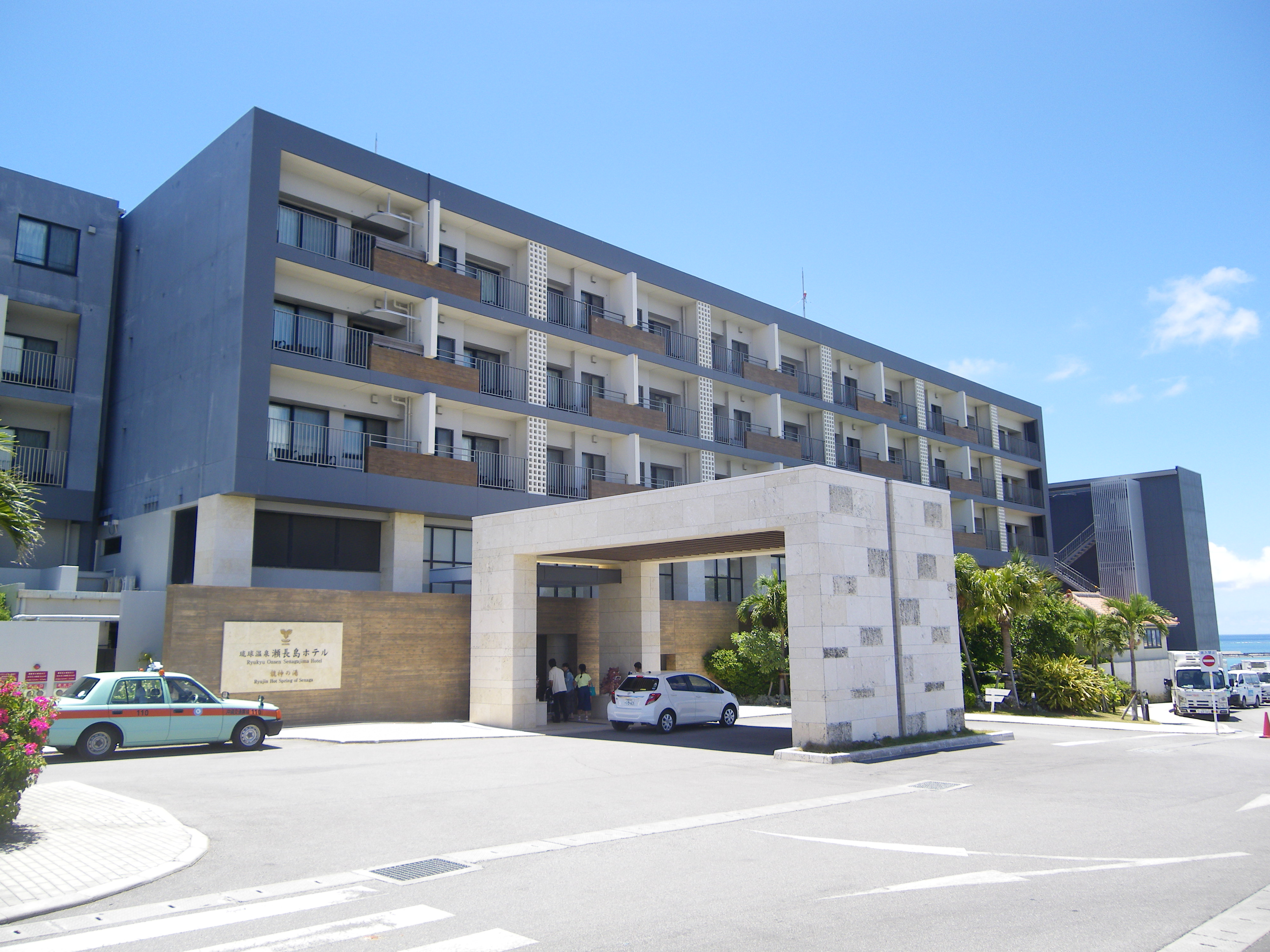 Ryukyu Onsen Senagajima Hotel